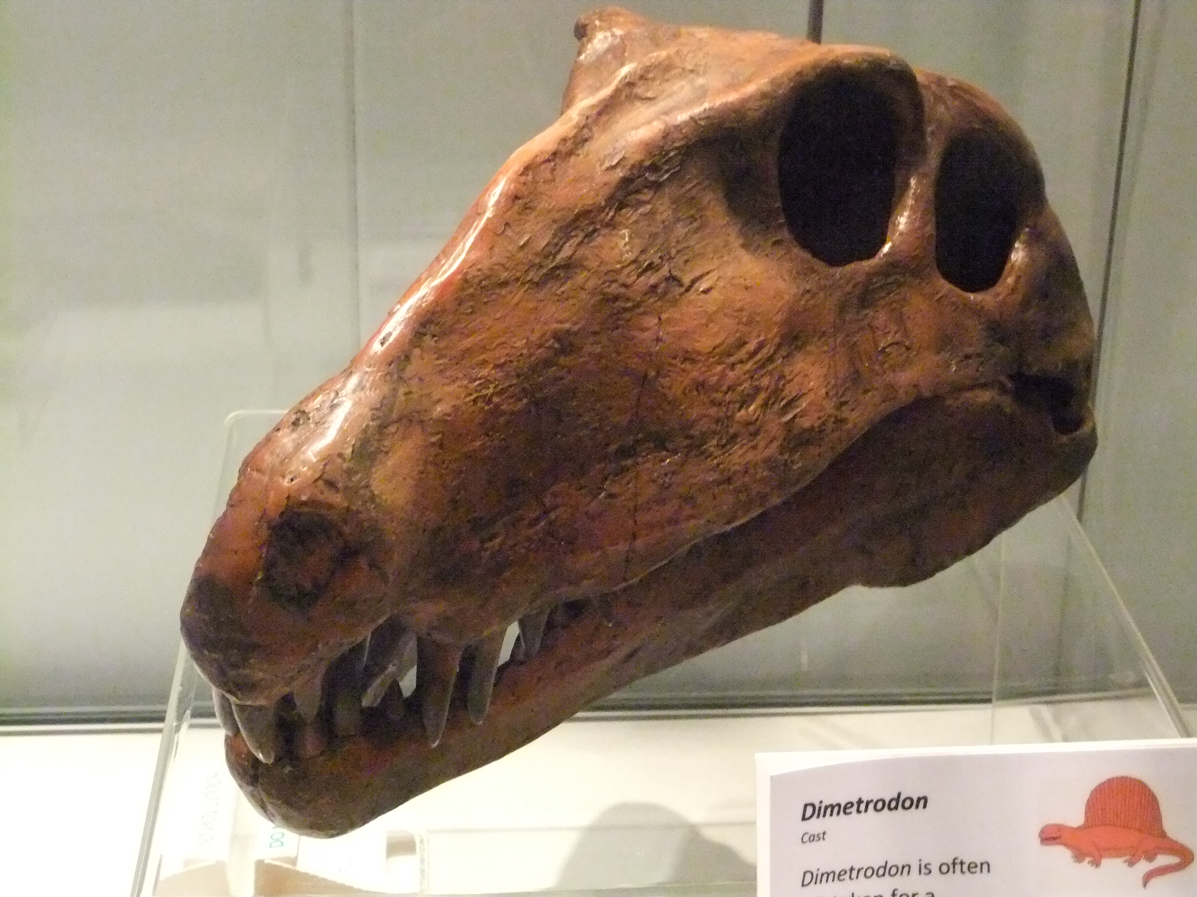 Dimetrodon skull, Wrexham Museum, Wales.